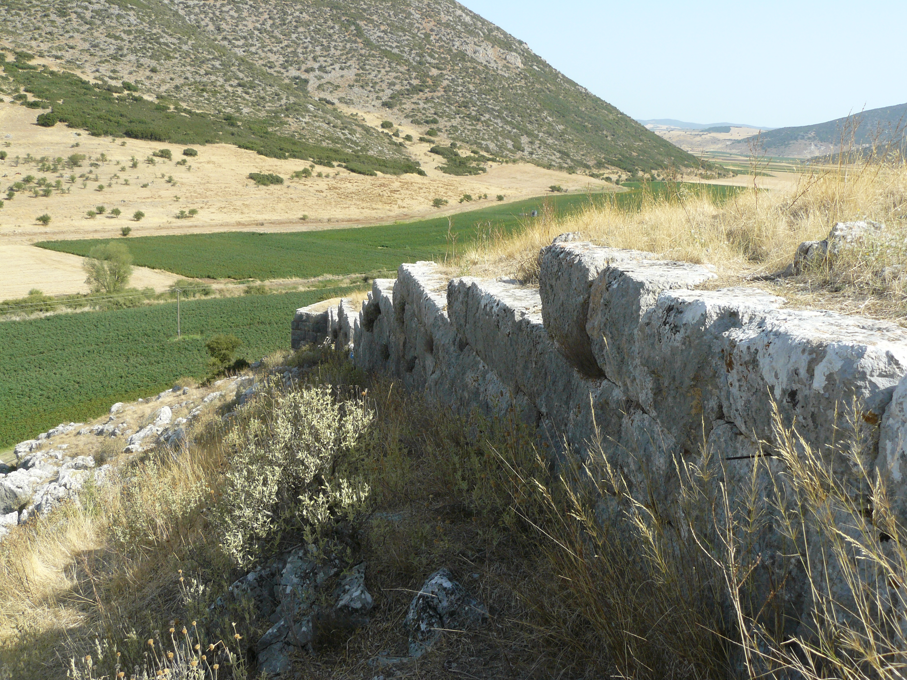 Archaeological site of Hyampolis, Fthiotis, Greece. West wall.